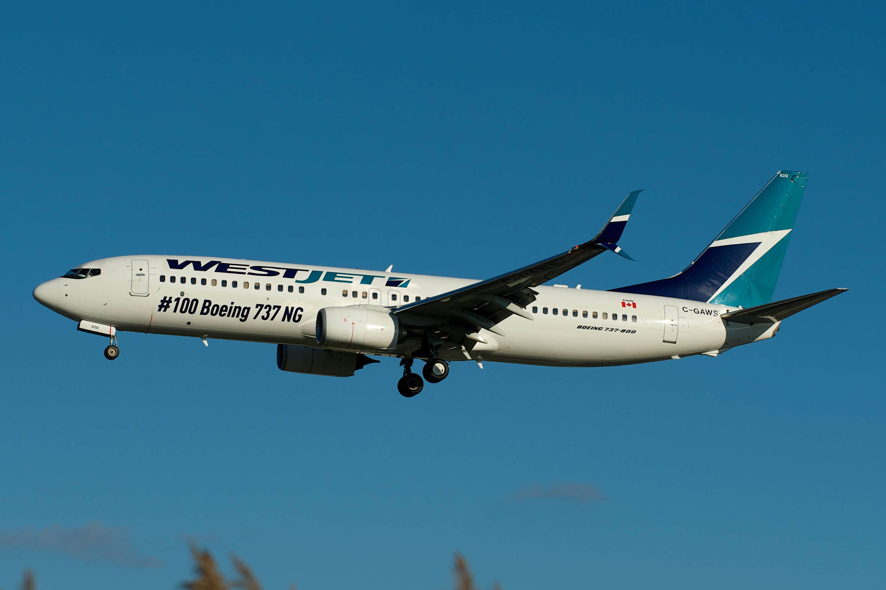 100 Boeing 737 NG for Westjet with split scimitar winglets on short final Toronto-Pearson YYZ